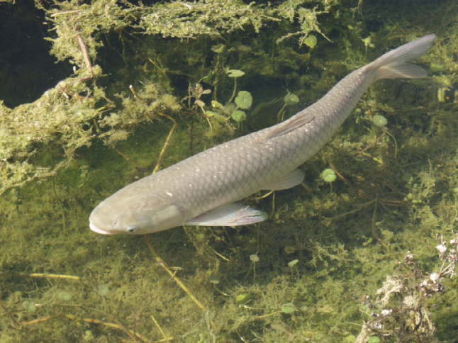 Grass Carp, Ctenopharyngodon idella (Valenciennes in Cuvier & Valenciennes, 1844)